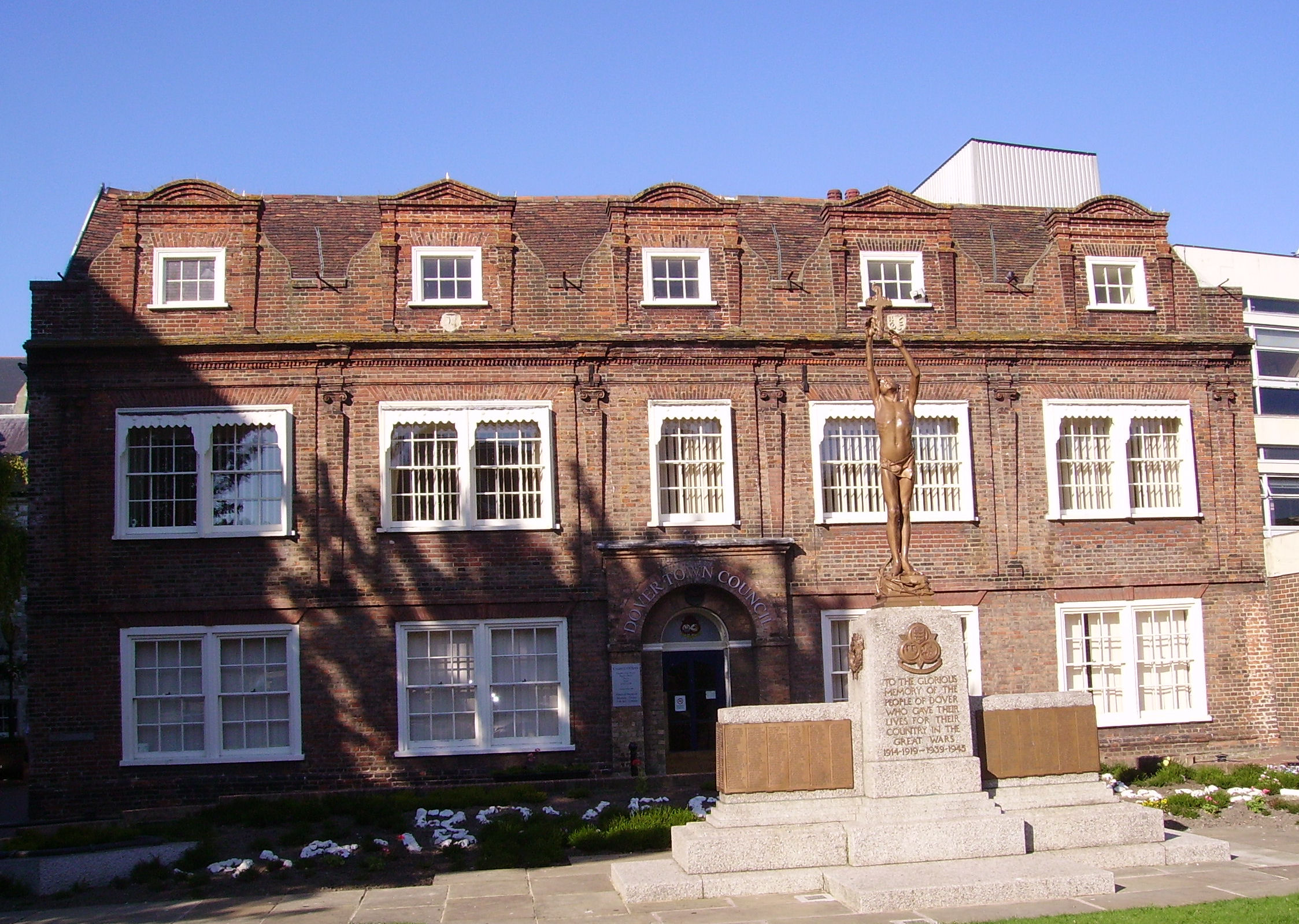 Maison Dieu House, Dover, United Kingdom. Built in 1665, this is thought to be the oldest domestic building in the town. It was bought by the town council for use as a library, but was converted to offices for the town council in 2004.